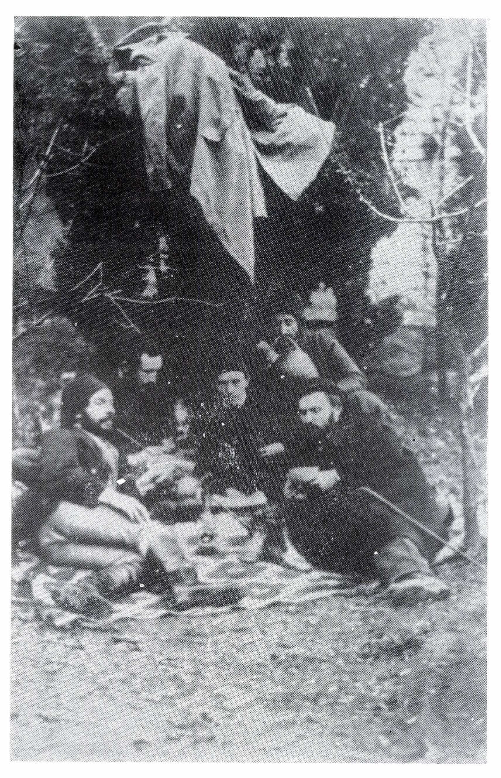 György Szilágyi (left) and Kálmán Rongé (right) with friends, before 1879